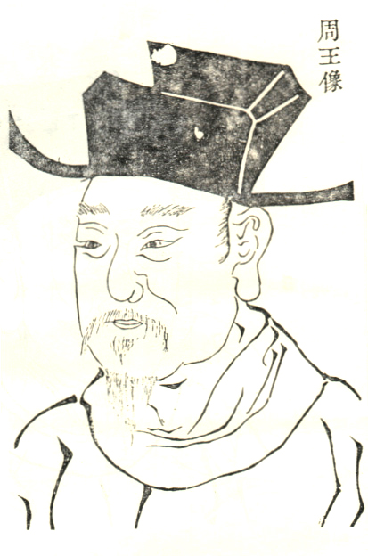 A depiction of Zhao Yuanyan, Prince of Zhou.